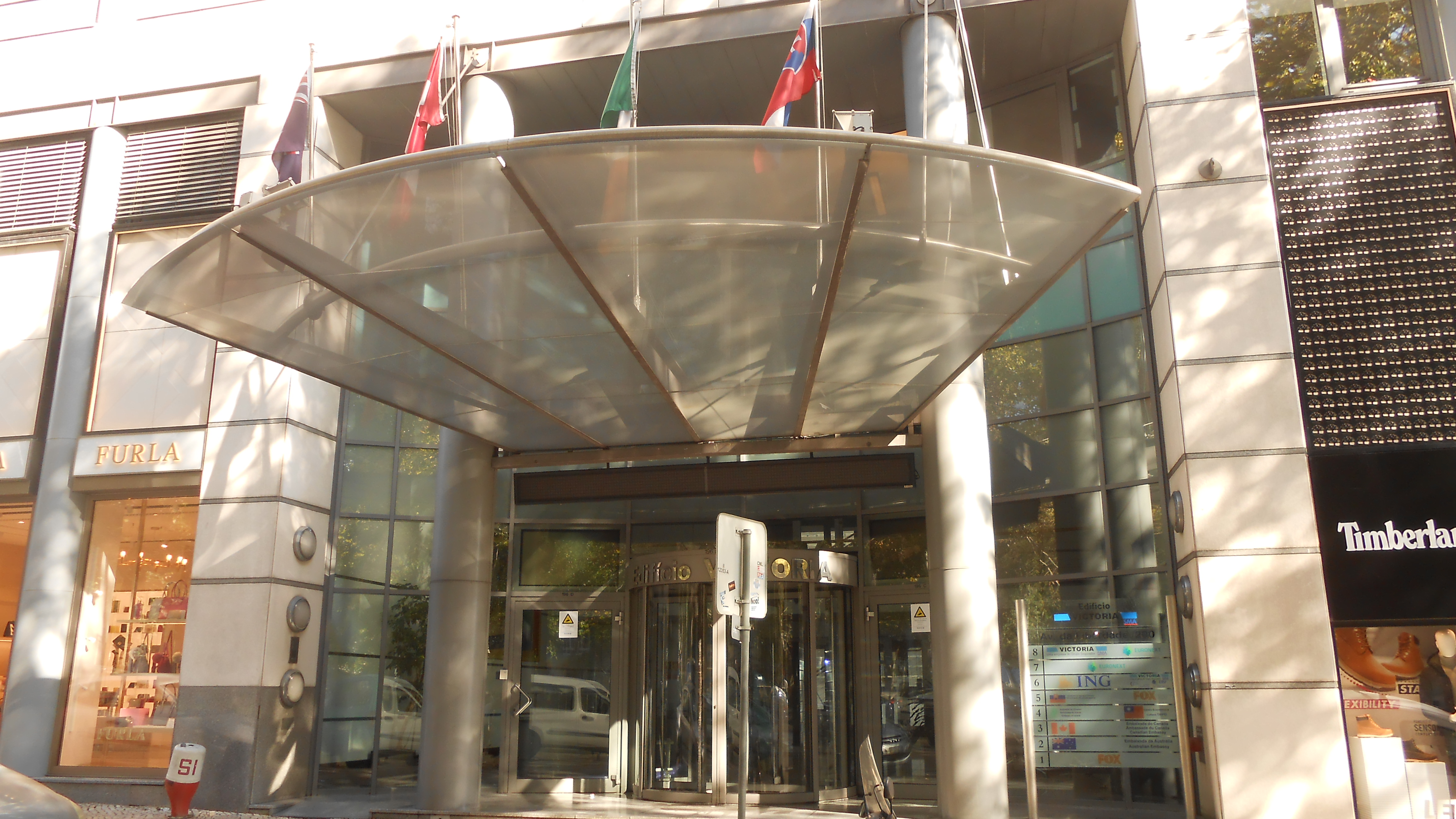 The Edifício Victoria building in the Avenida da Liberdade no. 200 in Lisbon. It hosts the embassies of Australia, Canada, Ireland und Slovakia, the consulate of the Republic of China (Taiwan) and offices of the Victoria insurance company, the ING bank, FOX media and the Euronext stock exchange group.